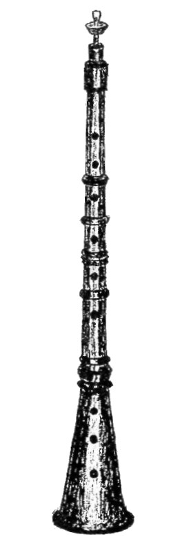 Double-reeded tárogató, Hungarian shawm-like woodwind instrument